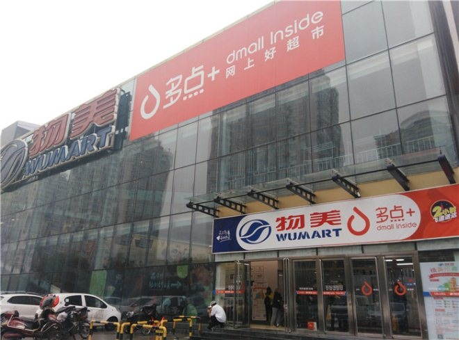 Wumart( Dmall+) LianXiangqiao Store in Beijing